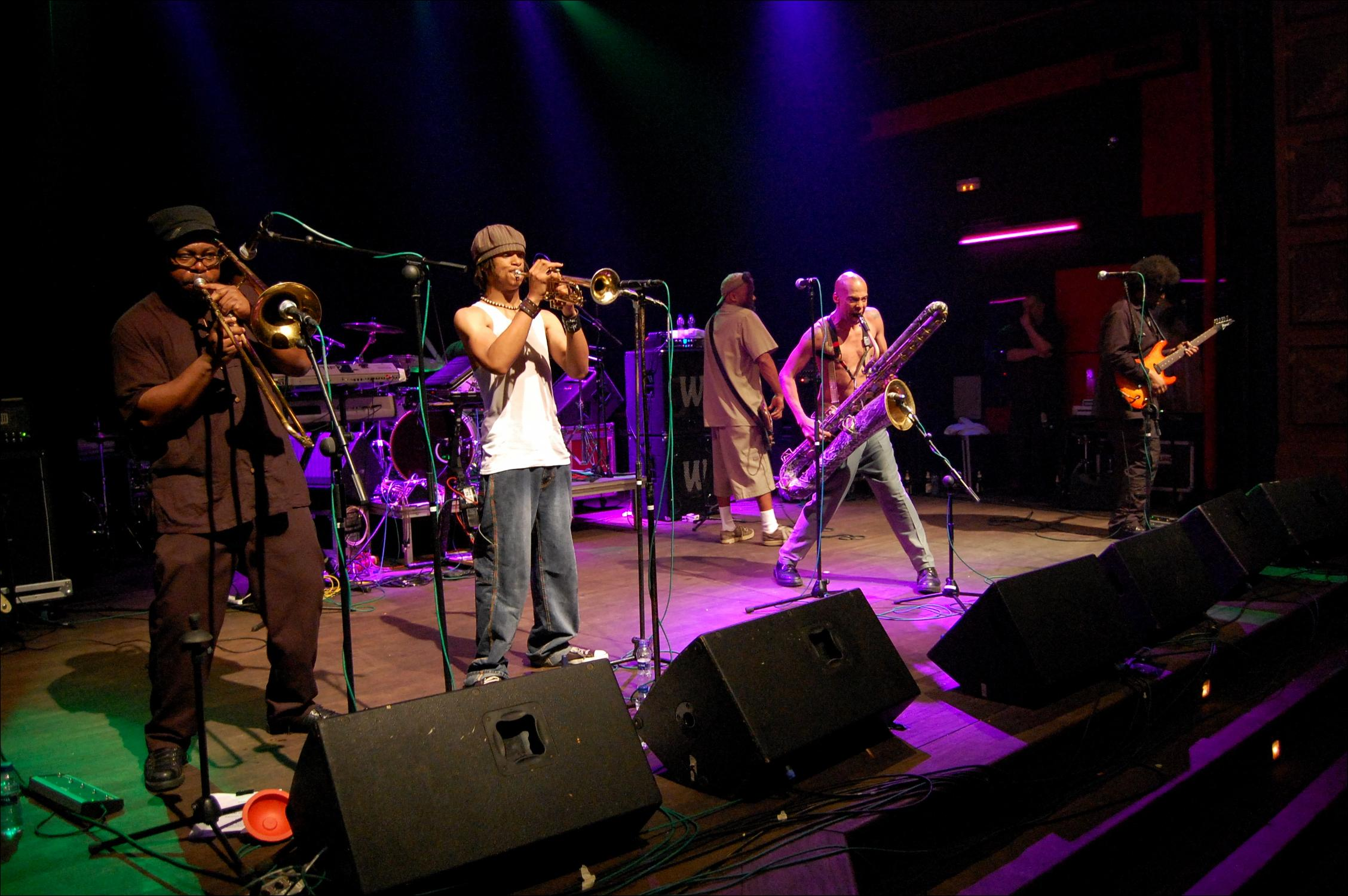 Fishbone